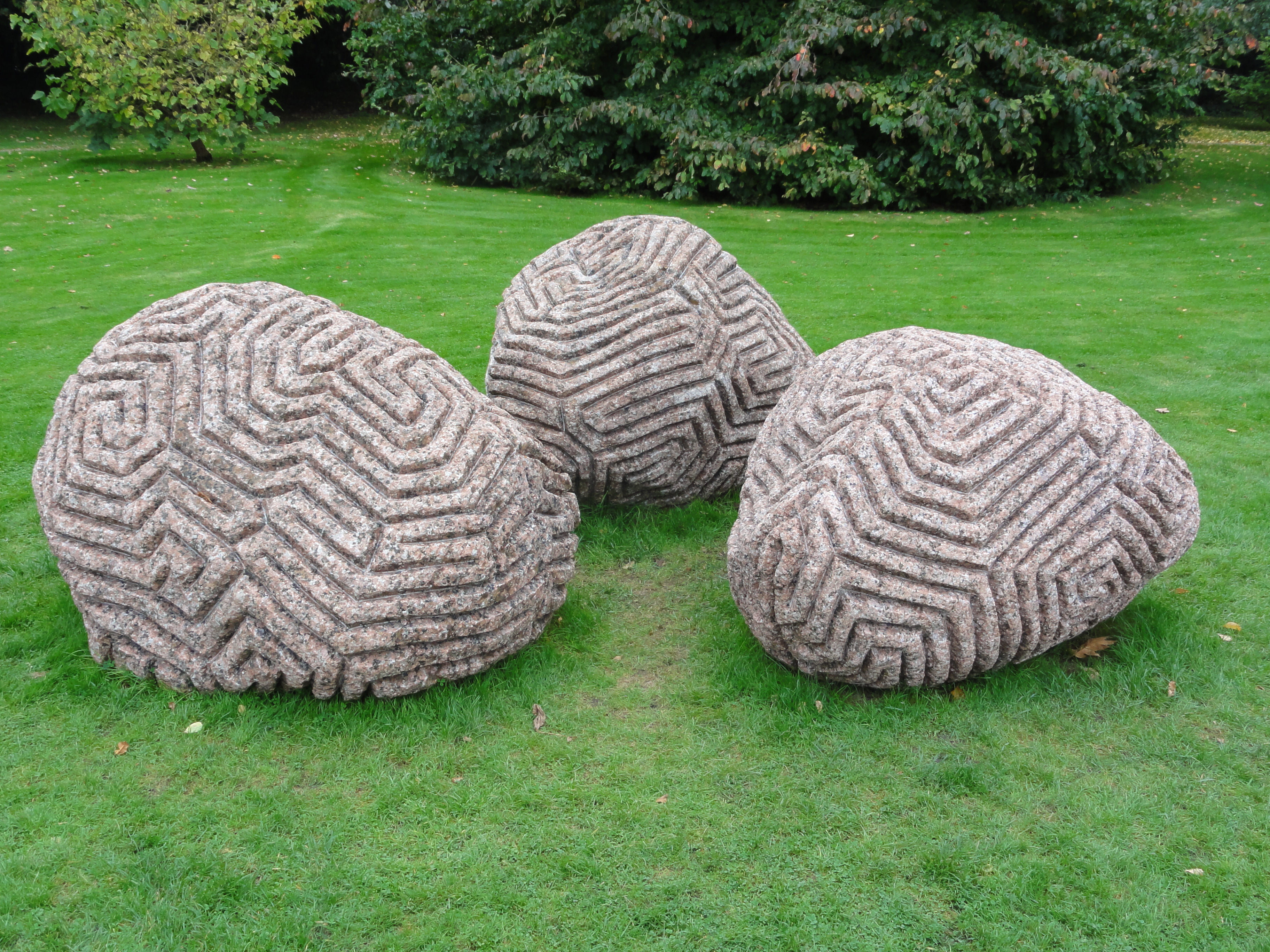 Statue/installation at DPG by Peter Randall-Page.